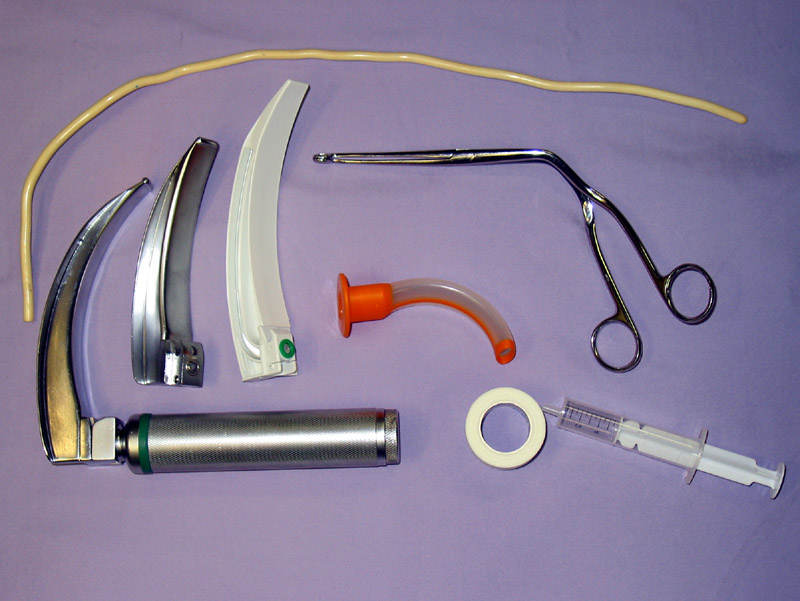 materiel pour intubation tracheale